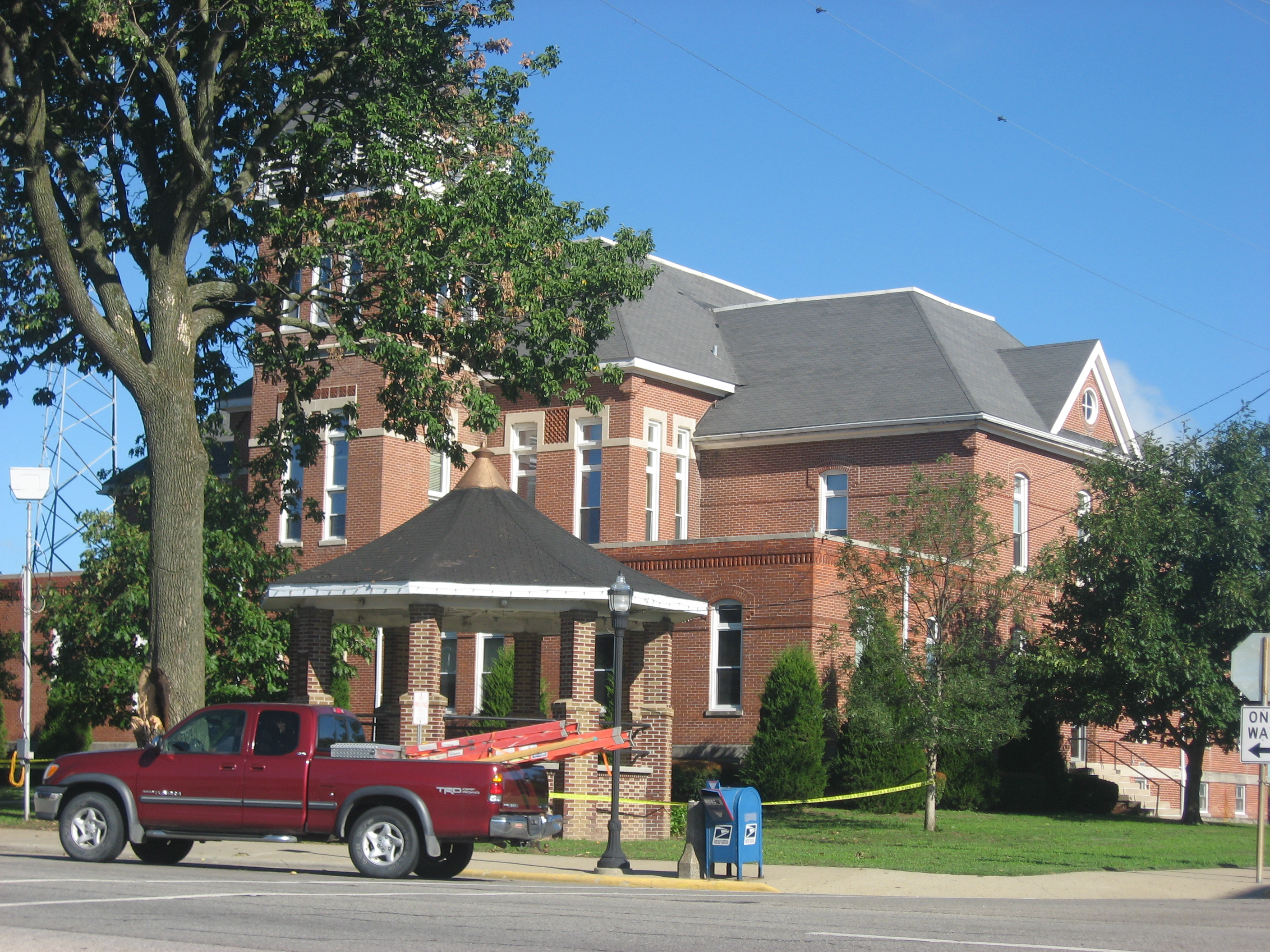 Front and eastern side of the Wayne County Courthouse, located at 301 E. Main Street (Illinois Route 15) in downtown Fairfield, Illinois, United States. It was built in 1891.